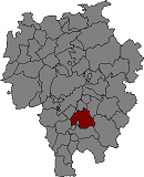 Location of Taradell in Osona